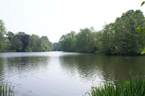 Whiteknights Lake, taken from the waterside near Whiteknights Road.